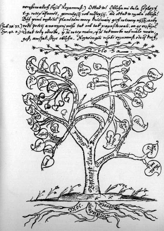 Picture from Komensky's Centrum securitatis, part Tree of life